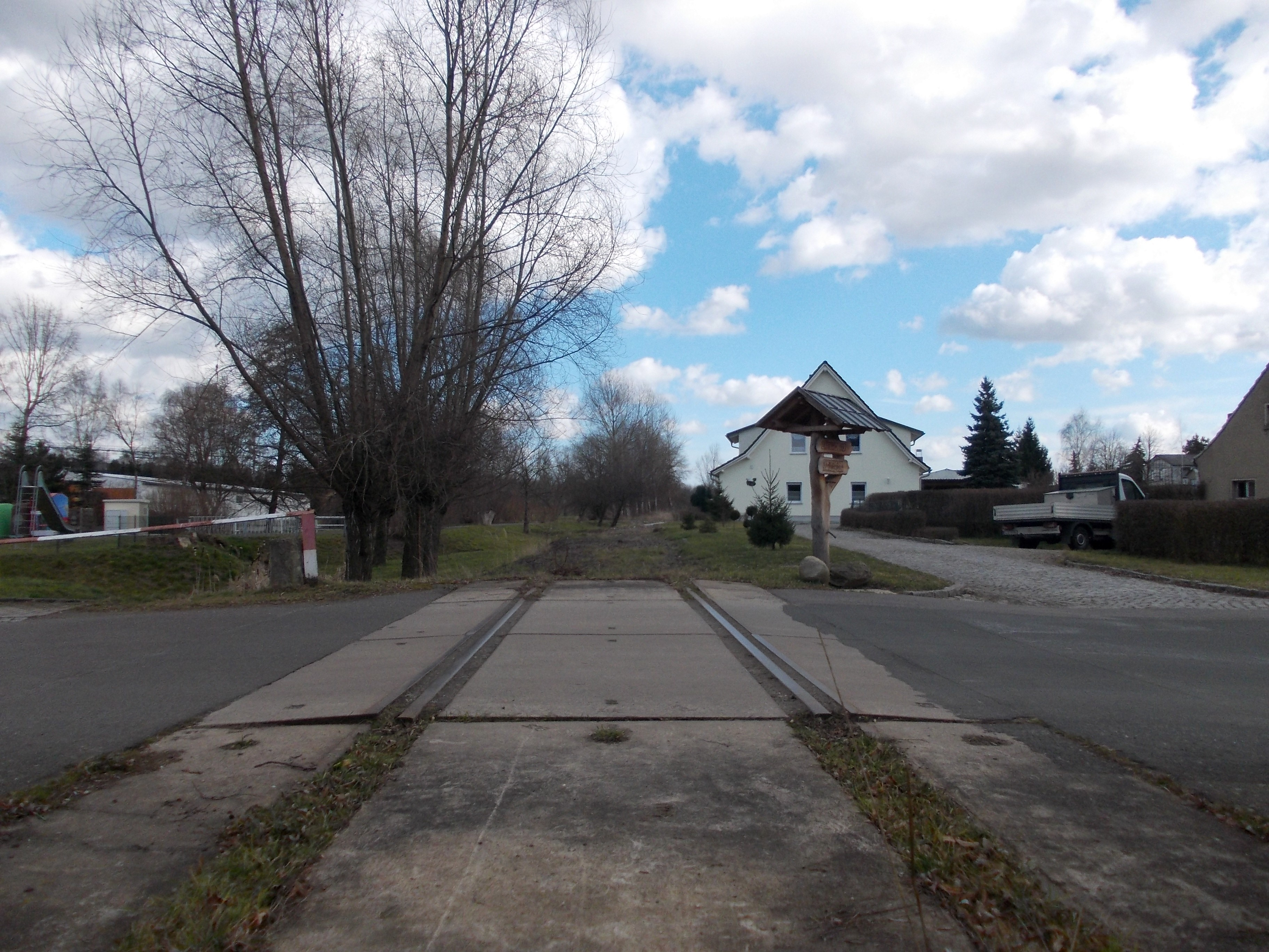 Remains of the Pegau-Neukieritzsch railway line in Grossstolpen (Groitzsch, Leipzig district, Saxony)